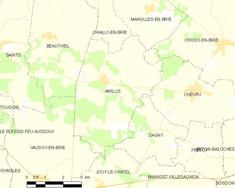 Map of French municipality Amillis